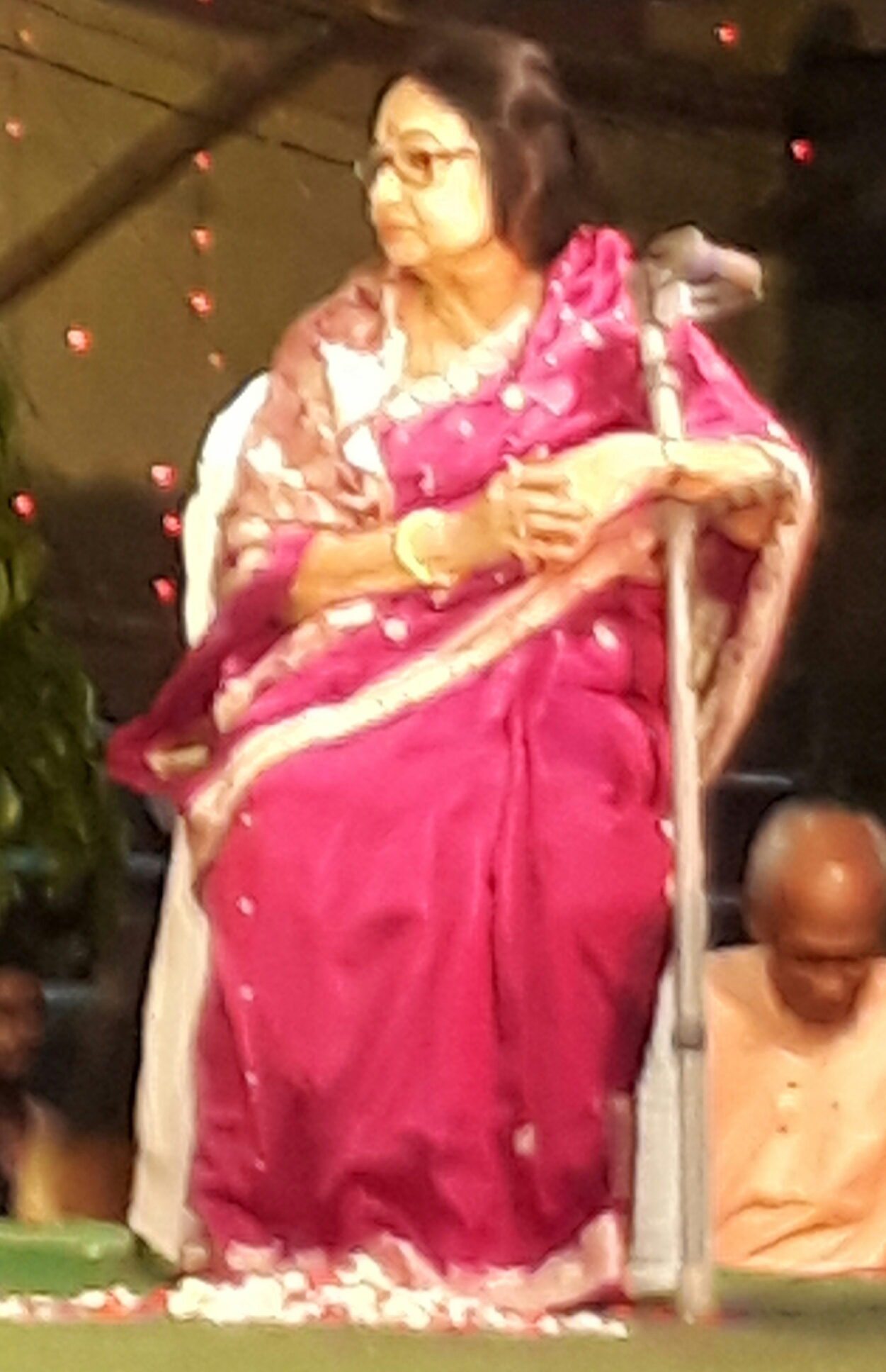 Bengali award winning actress Madhabi Mukherjee in 2018.